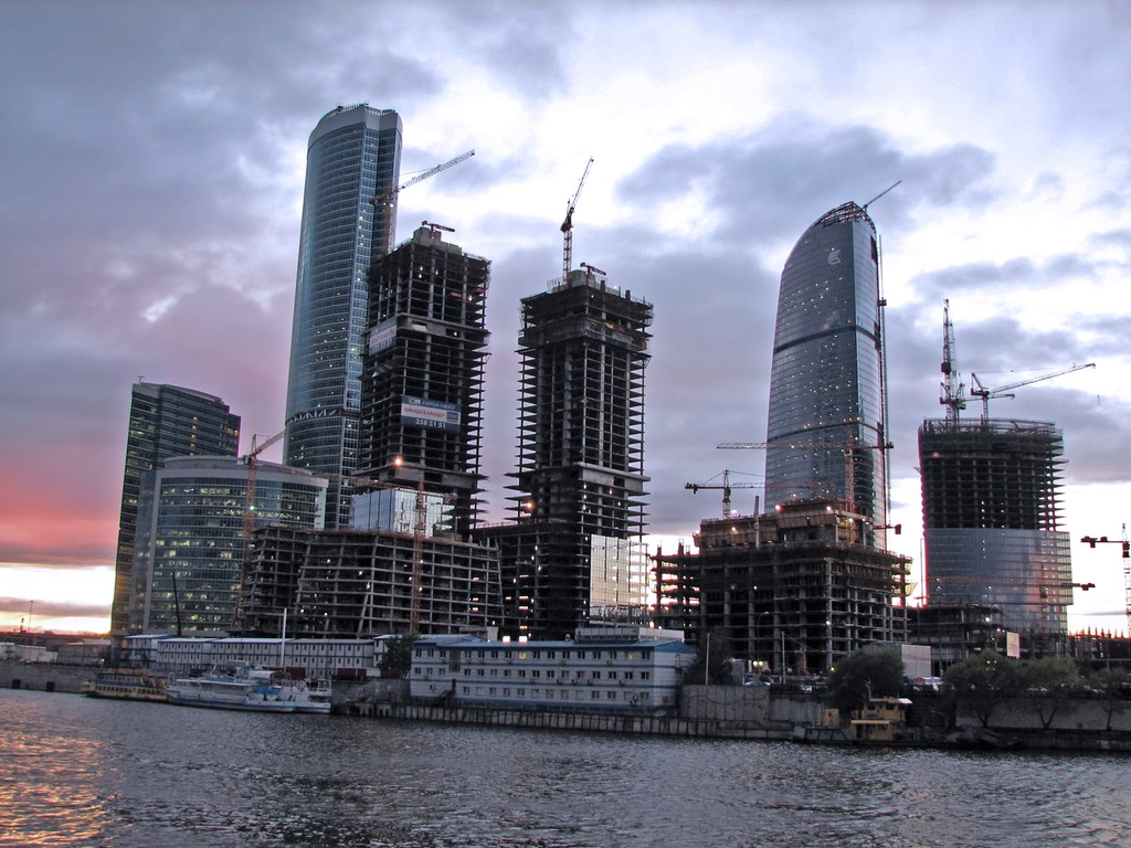 Moscow city october 2007